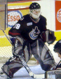 Goaltender Dan Cloutier with the Vancouver Canucks in 2005.